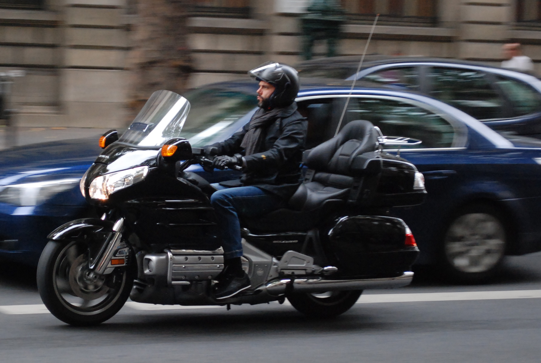 Hond GL1800 Goldwing in Paris